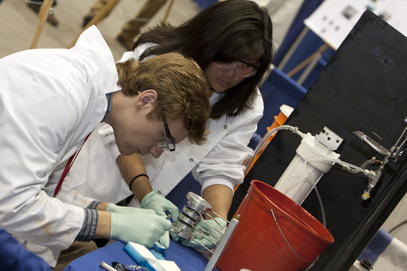 A student at the International Environmental Design Contest demonstrates a bench-scale model.